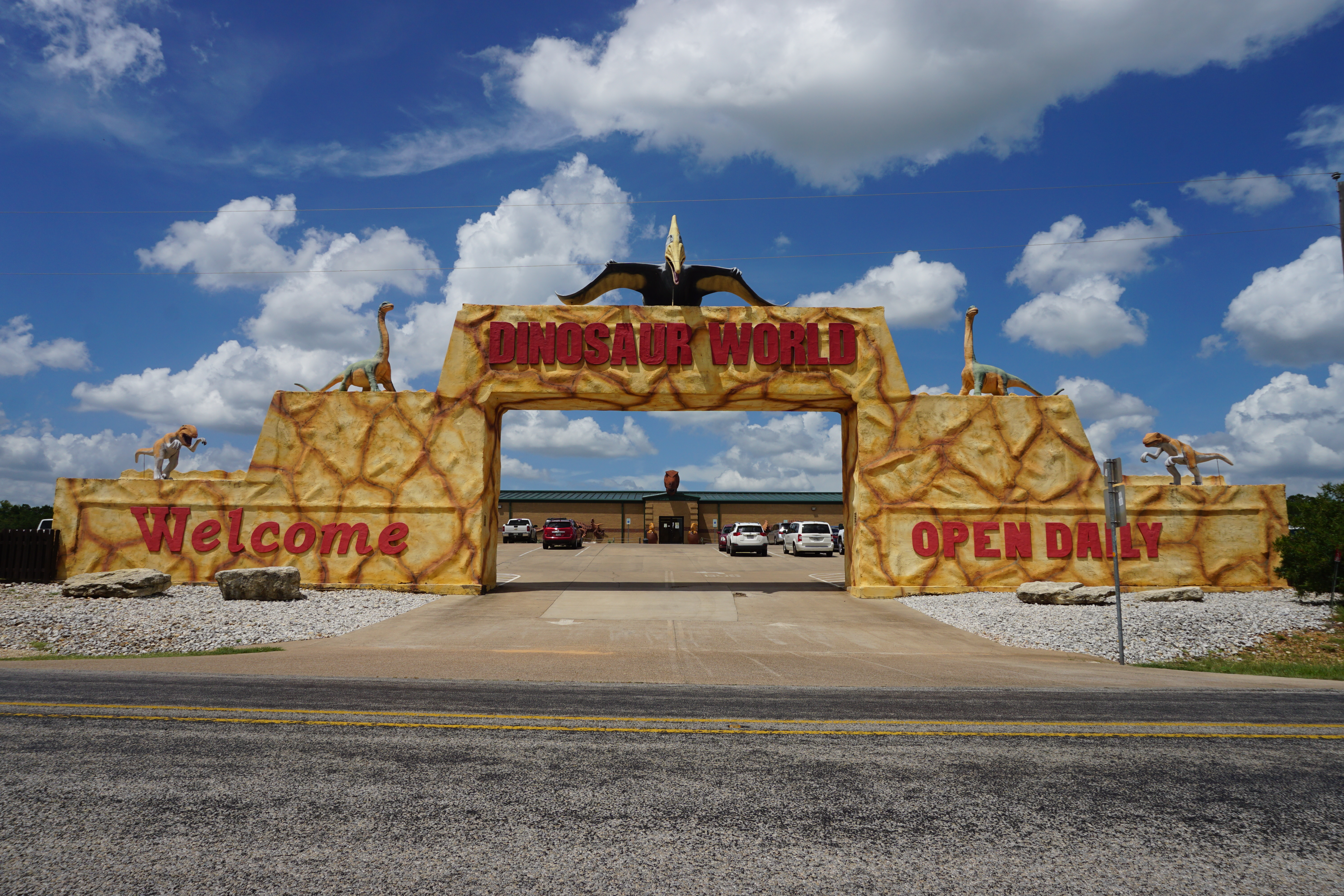 Dinosaur World in Glen Rose, Texas (United States).